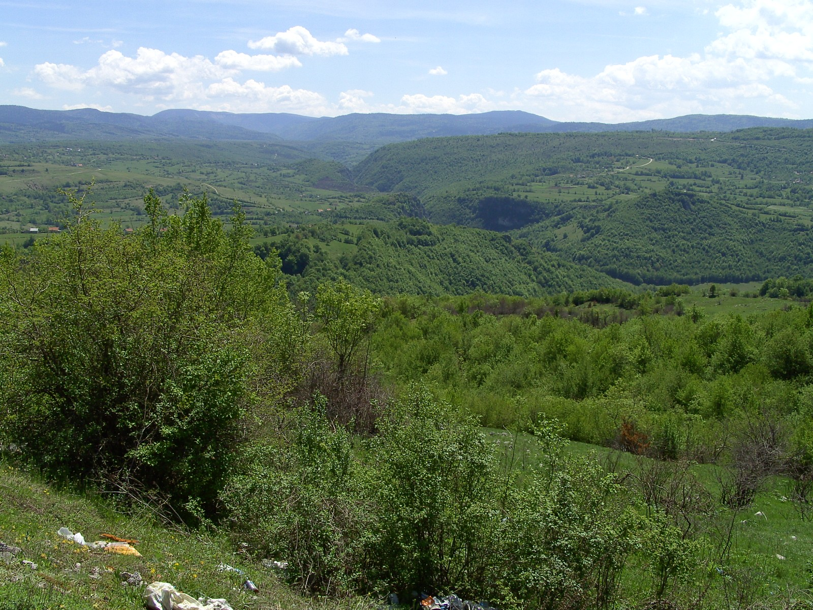 Bosnian countryside near the river of Janj, Republika srpska, Bosnia and Herzegovina